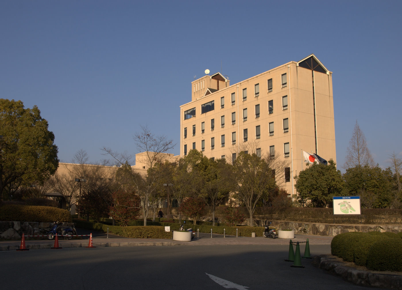 School of Engineering, Kinki University in Higashihiroshima , Hiroshima pref., Japan.